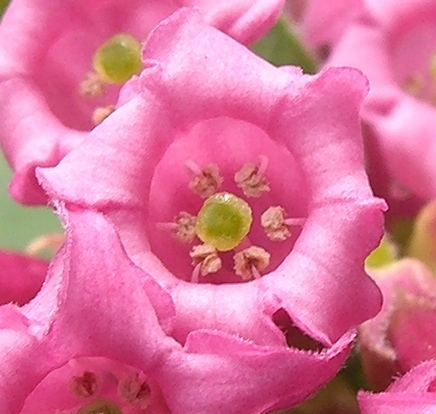 Please report references to .